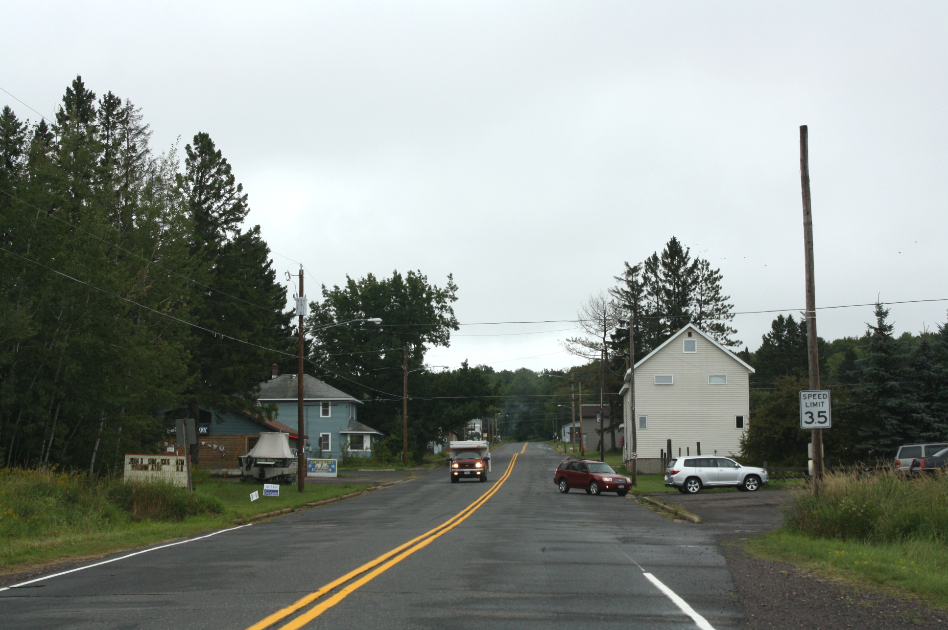 Looking east at downtown Iron Belt, Wisconsin on Wisconsin Highway 77.